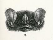 Pygoderma bilabiatum, head